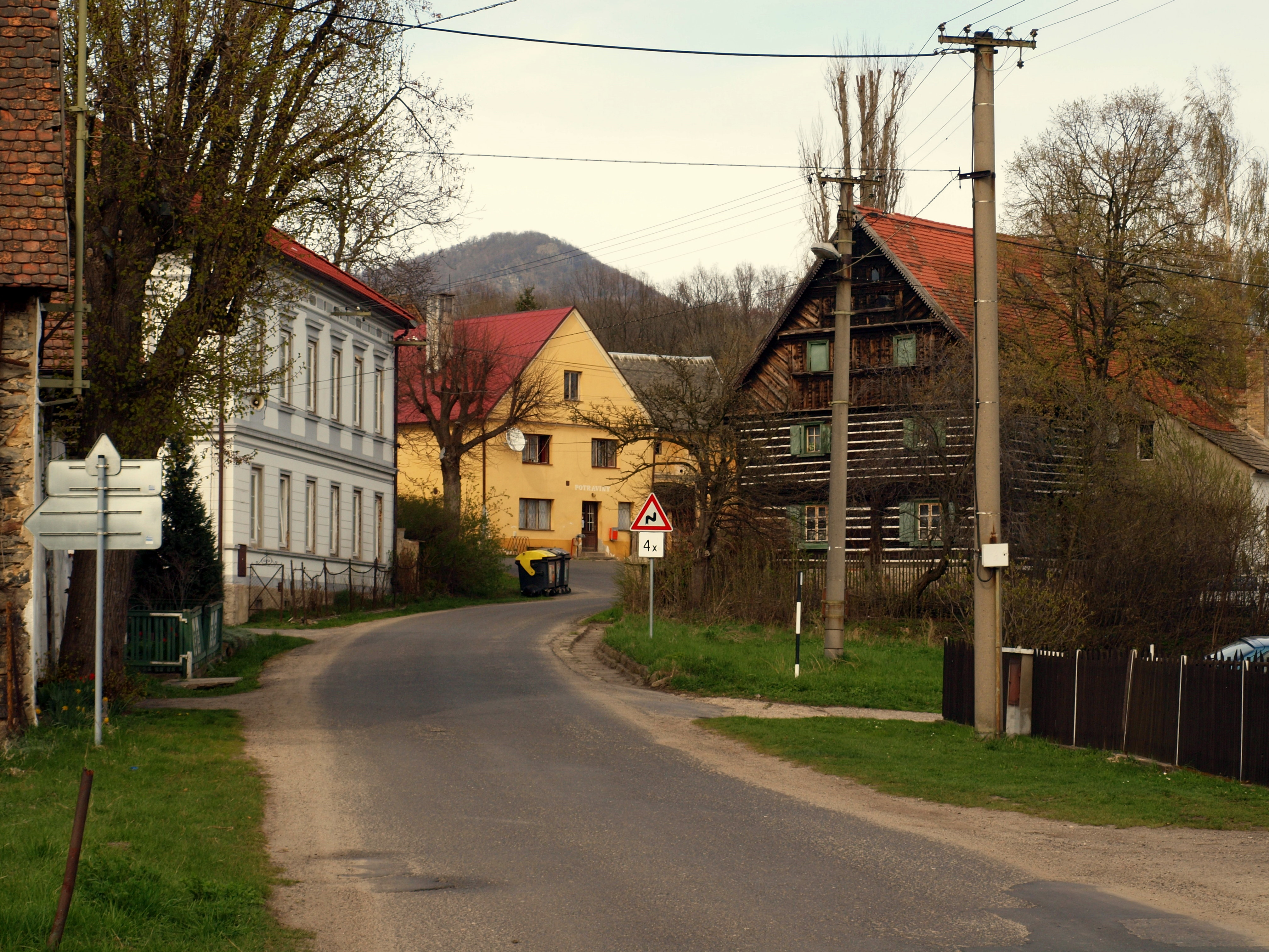 Soběnice, silnice III/24071, čp. 8, 12, 54.